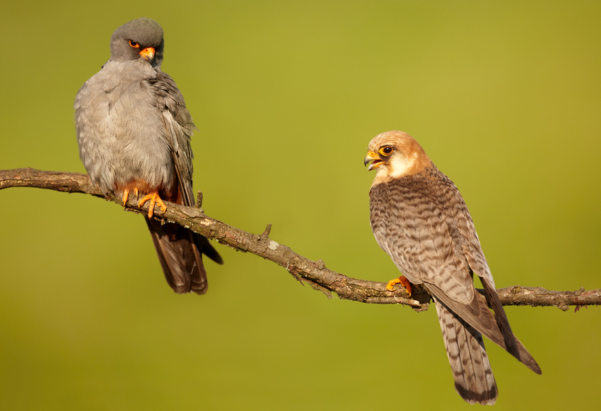 Falco vespertinus - male (on left) and female; Hungary